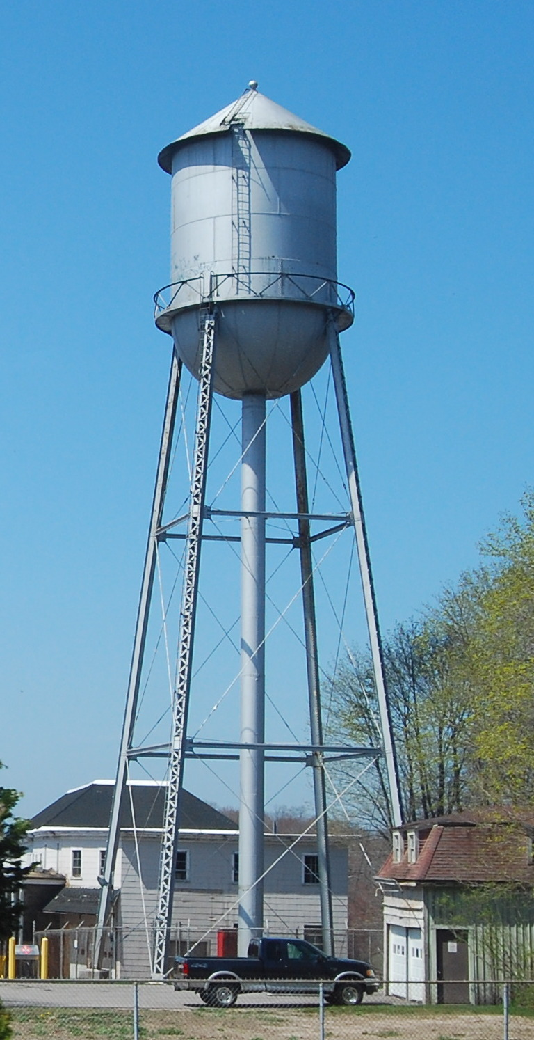 Mill water tower in Kenyon, Rhode Island